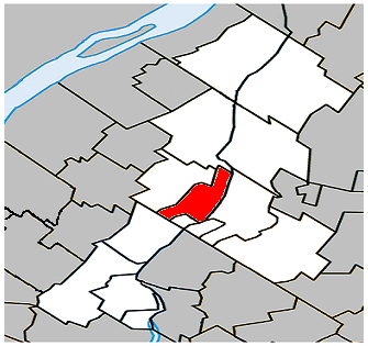 Location of Beloeil, Quebec within La Vallée-du-Richelieu Regional County Municipality.